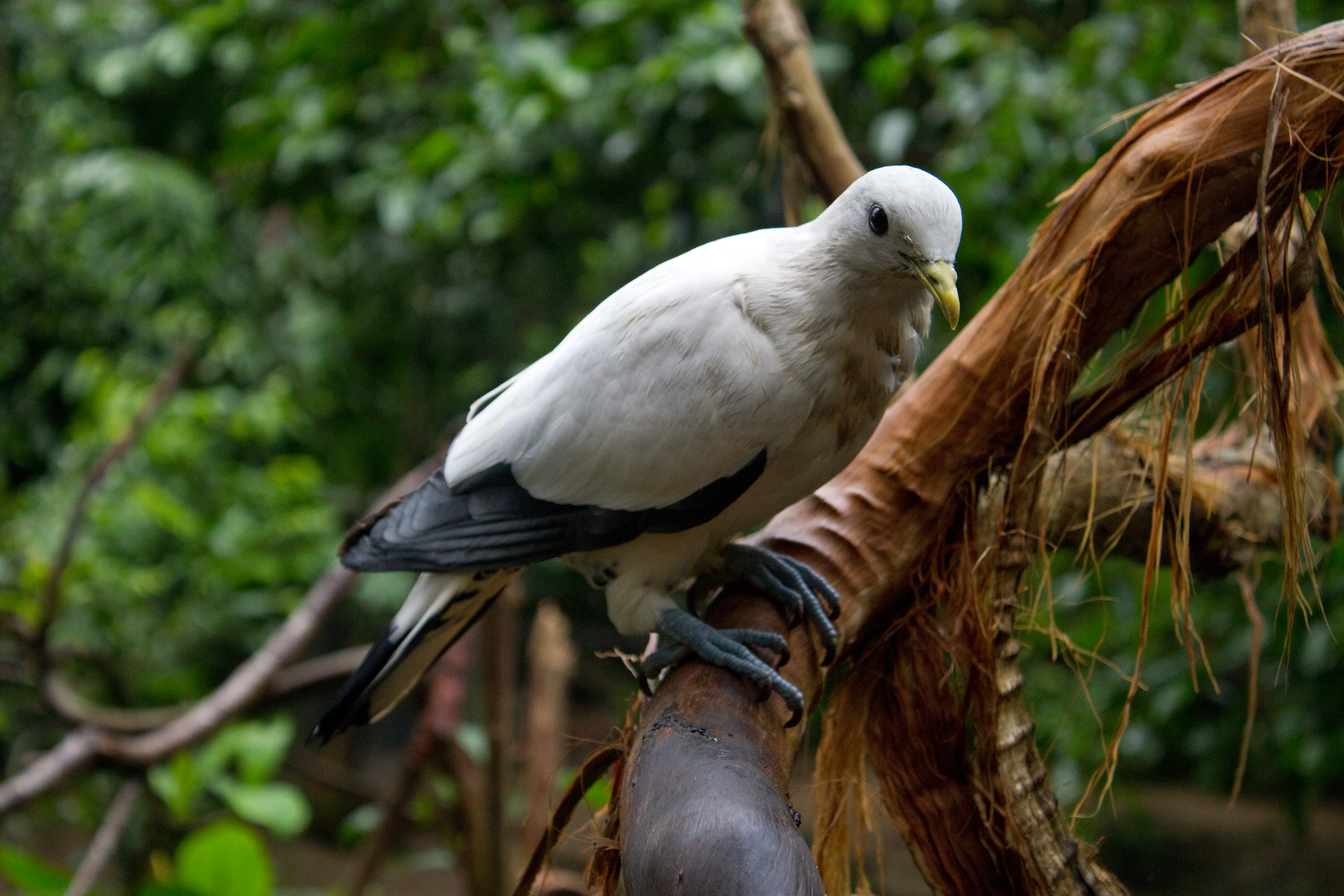 A Torresian Imperial-pigeon at Wildlife Habitat, Port Douglas, Queensland, Australia.